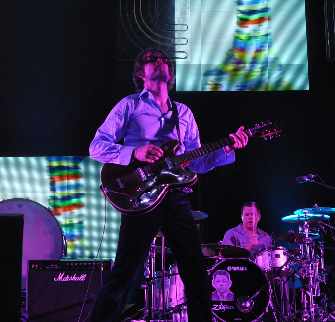 Jarvis Cocker of Pulp, Coachella 2012, Day one, Friday, April 20, 2012